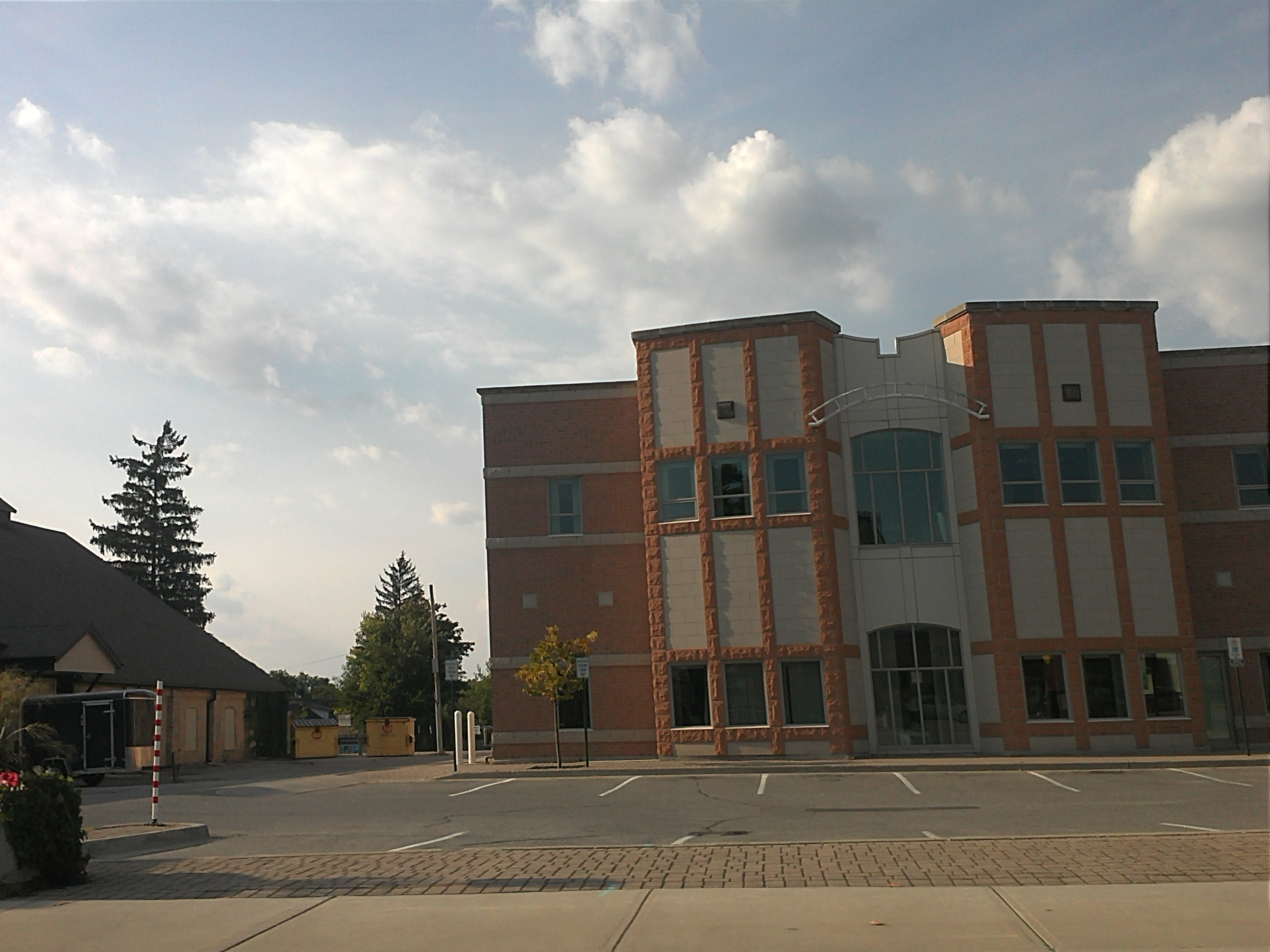 September 2012